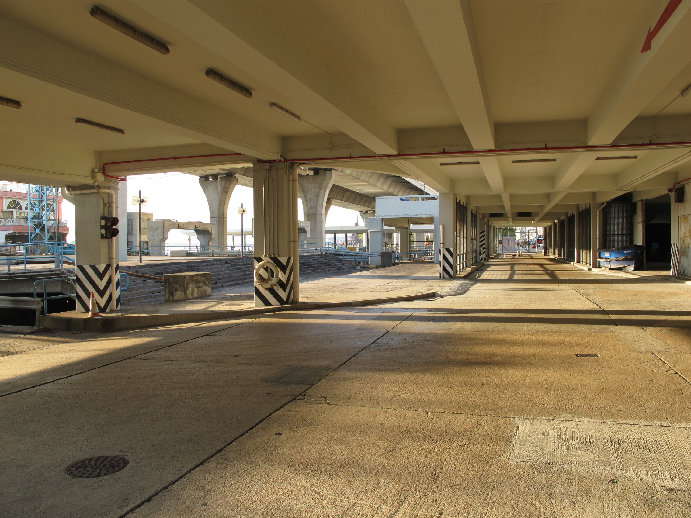 Kwun Tong Ferry Pier vehicle access